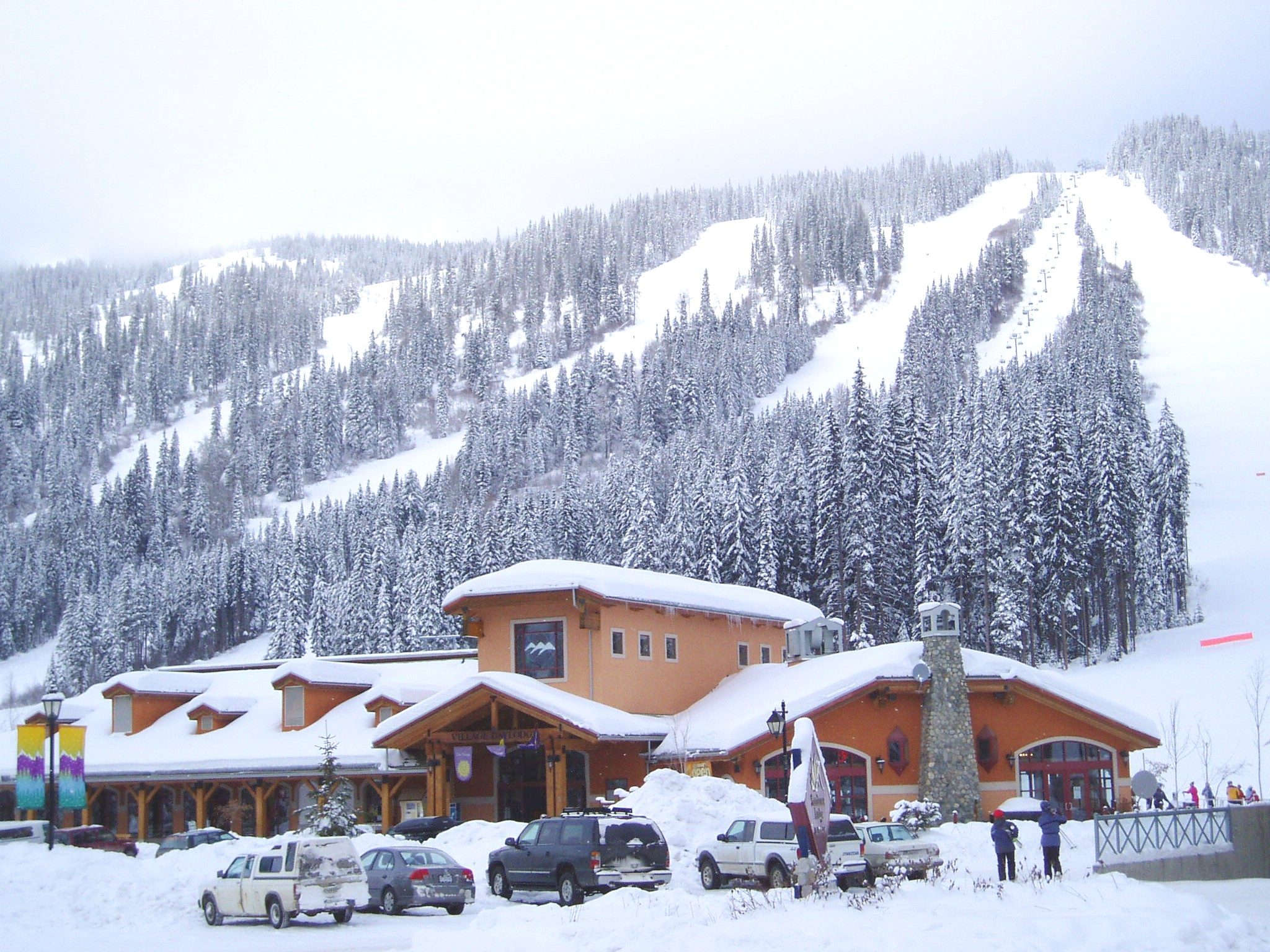 Sun Peaks Lodge, British Columbia, Canada